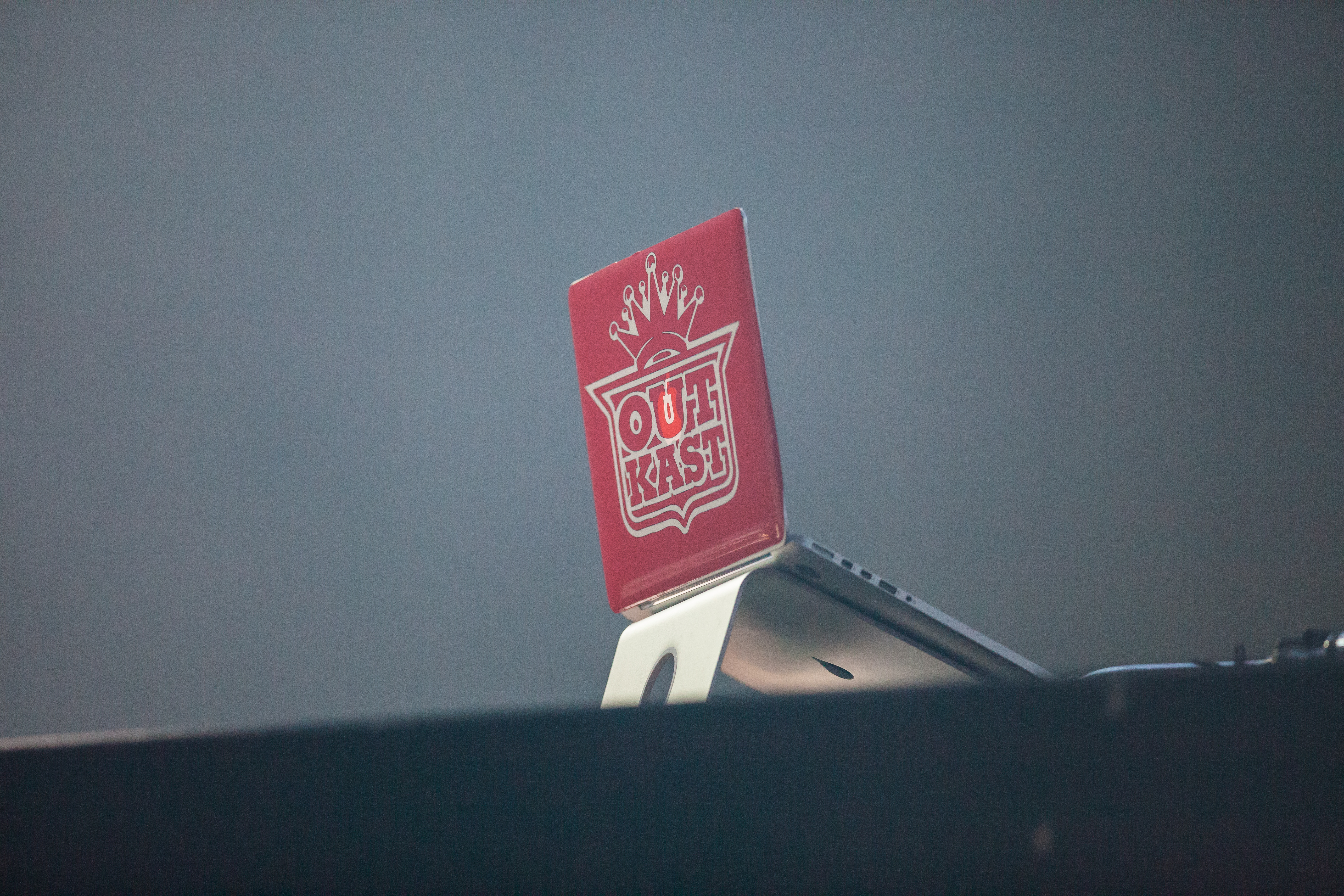 Rock'n'Heim Rock Festival Hockenheim August 2014